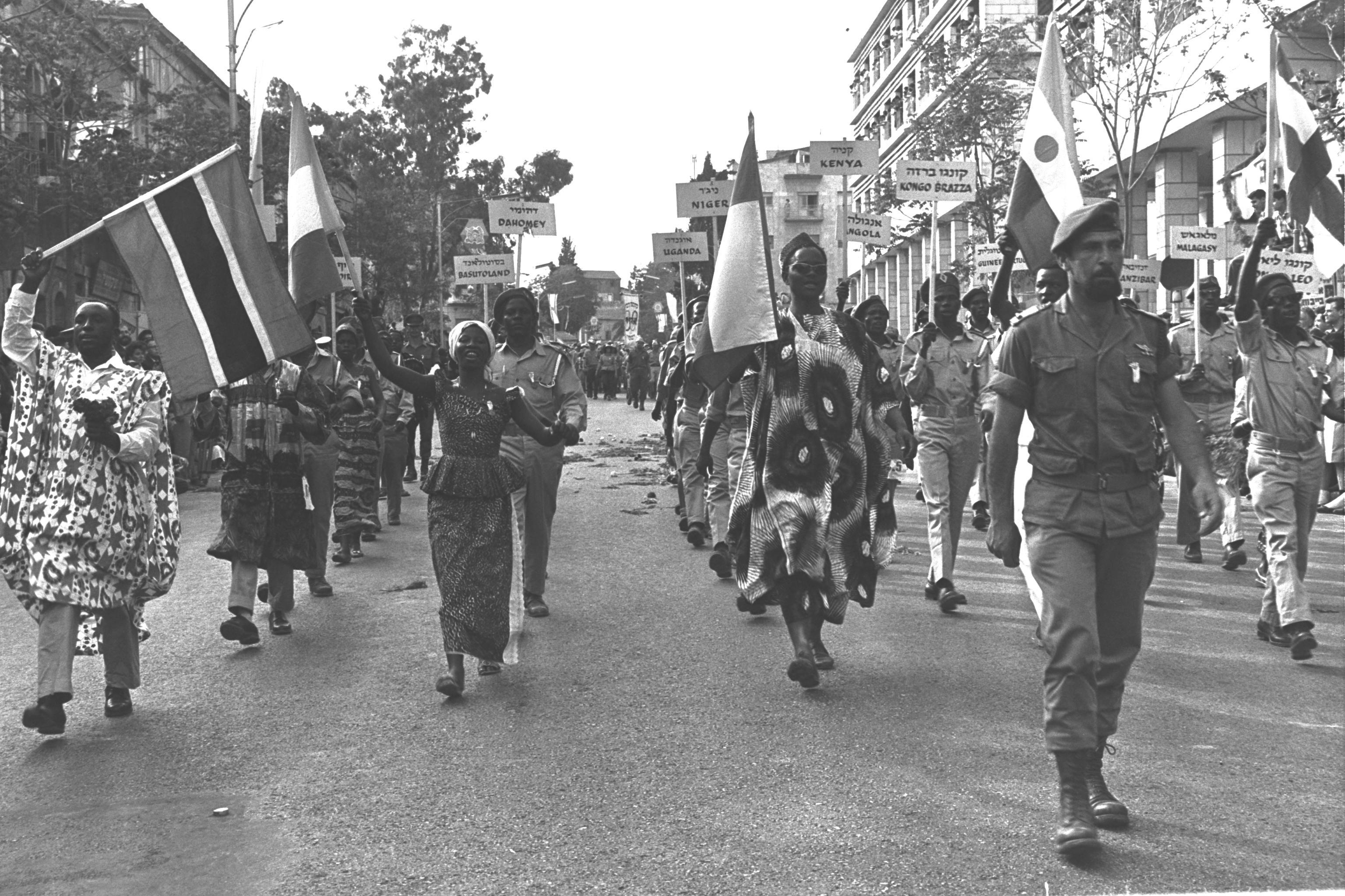 African tourists dressed in national costume march through Jerusalem during the last day of the four-day march to Jerusalem.